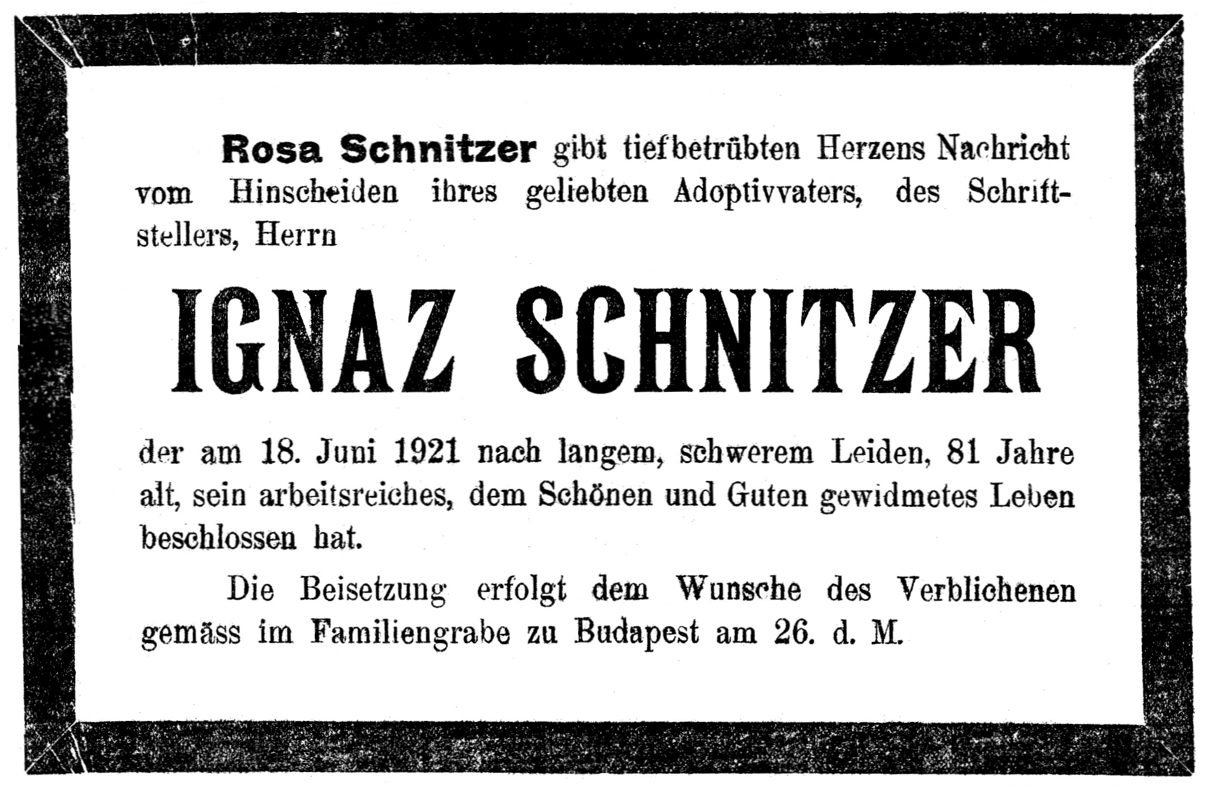 Death notice of Ignaz Schnitzer (1839–1921), librettist of the Strauss-operetta The Gypsy Baron